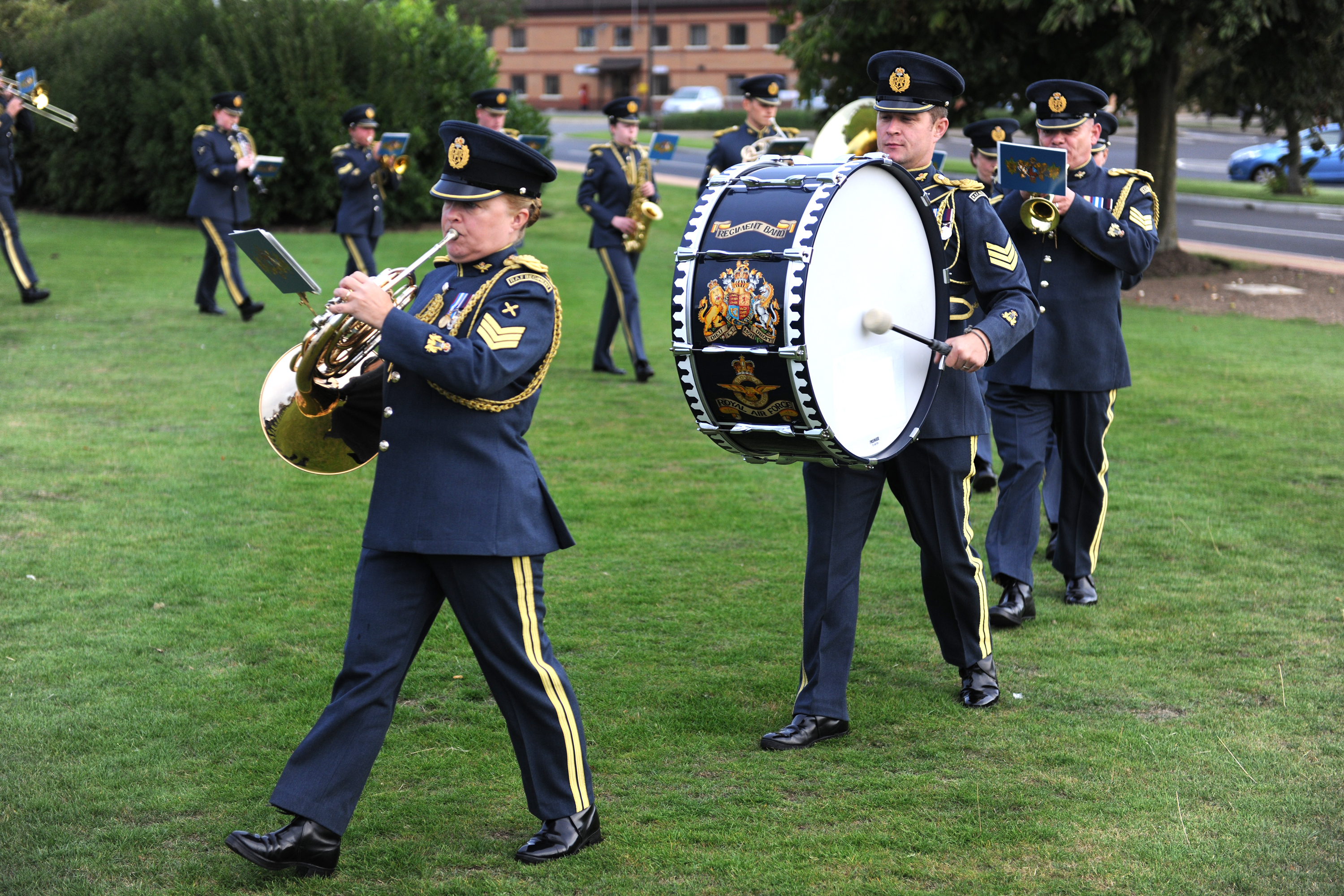 RAF ALCONBURY, United Kingdom - The Band of the Royal Air Force Regiment helps commemorate the 71st anniversary of The Battle of Britain with a Beating of Retreat and Sunset Ceremony Sept. 7 here.